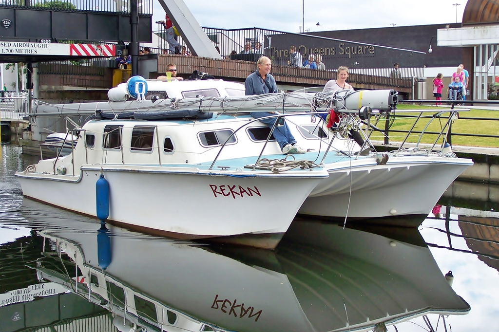 Catamaran "Rekan" coming under the "Swan Bridge" in Clydebank Shopping Centre and continuing down the canal under Kilbowie Road